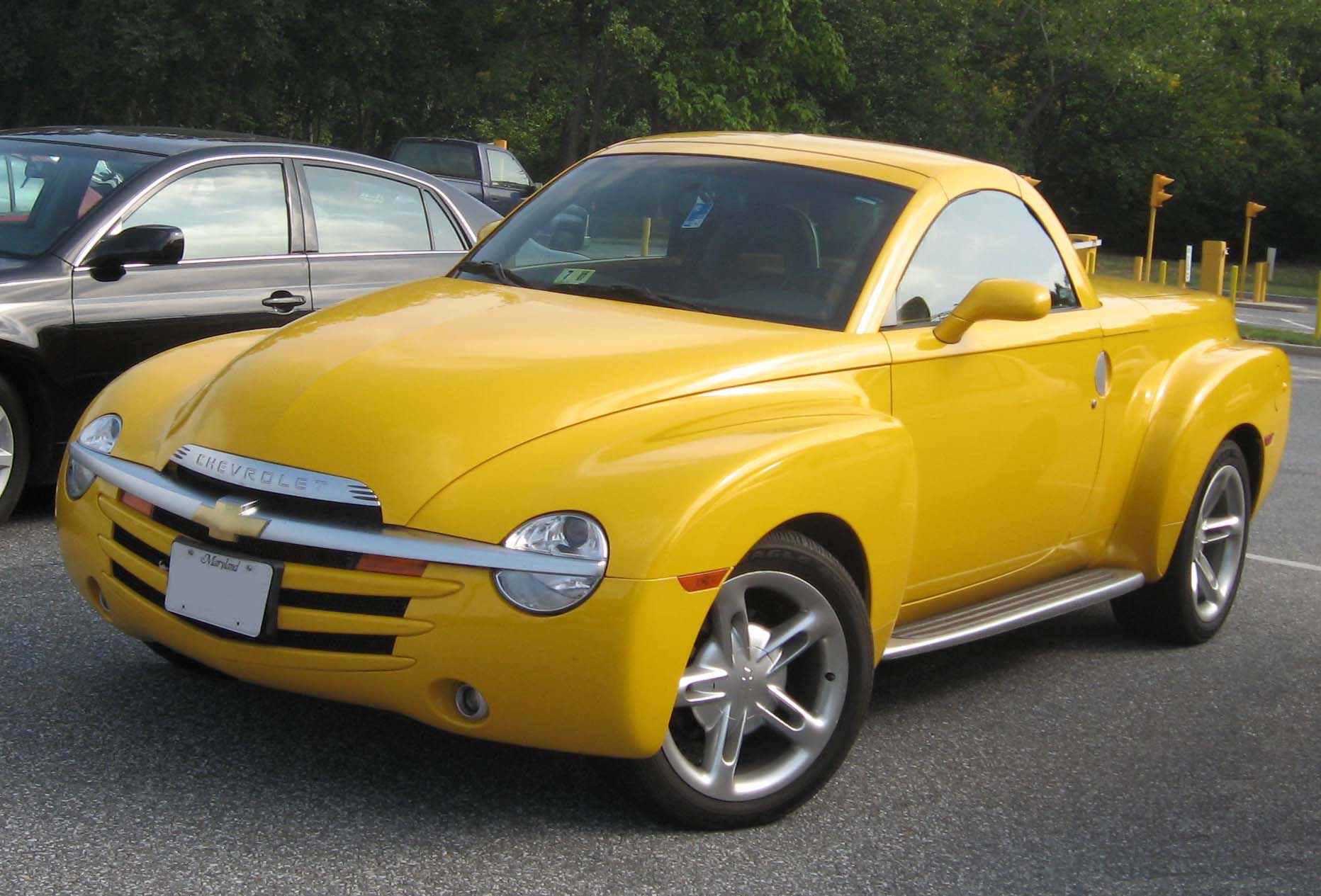 Chevrolet SSR photographed in Hyattsville, Maryland, USA.